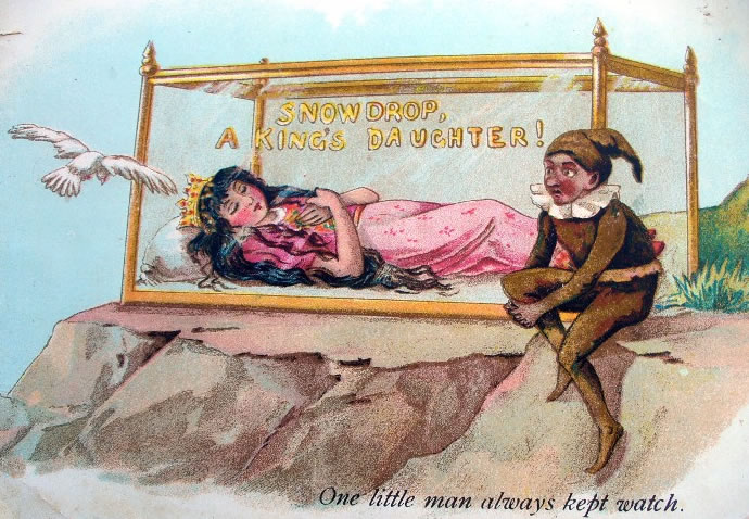 Inside illustration from Little Snowdrop, 1731